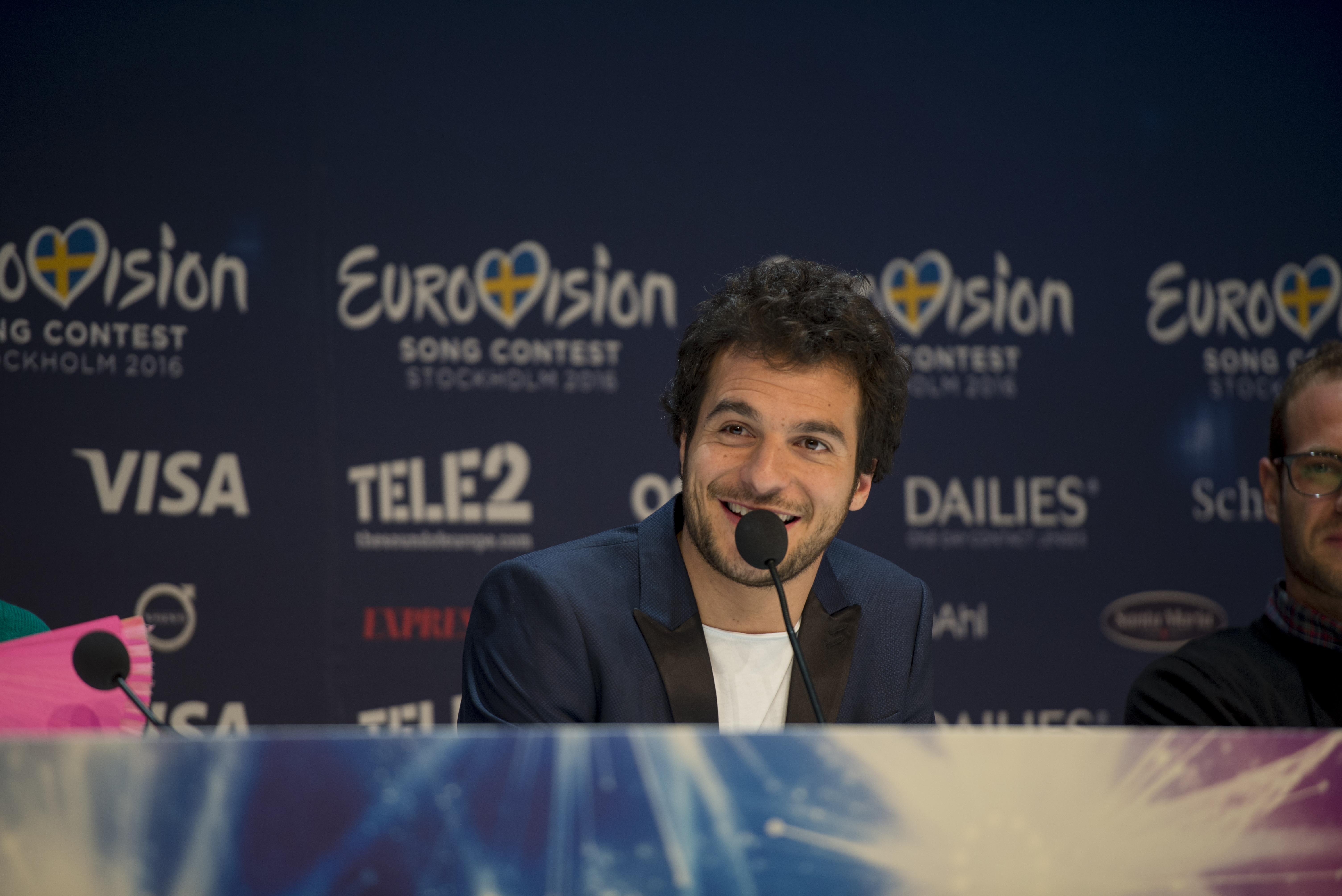 Amir at a Meet & Greet during the Eurovision Song Contest 2016 in Stockholm. (Help translate this text)